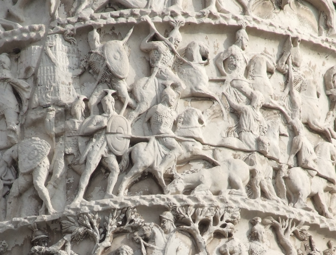 fly roma rome rom lazio spqr italy italia statue church nature city citta street light landscape achitecture building monument history free europe europa people girls wallpaper castielli vacation holliday holiday trip art high religion catholic